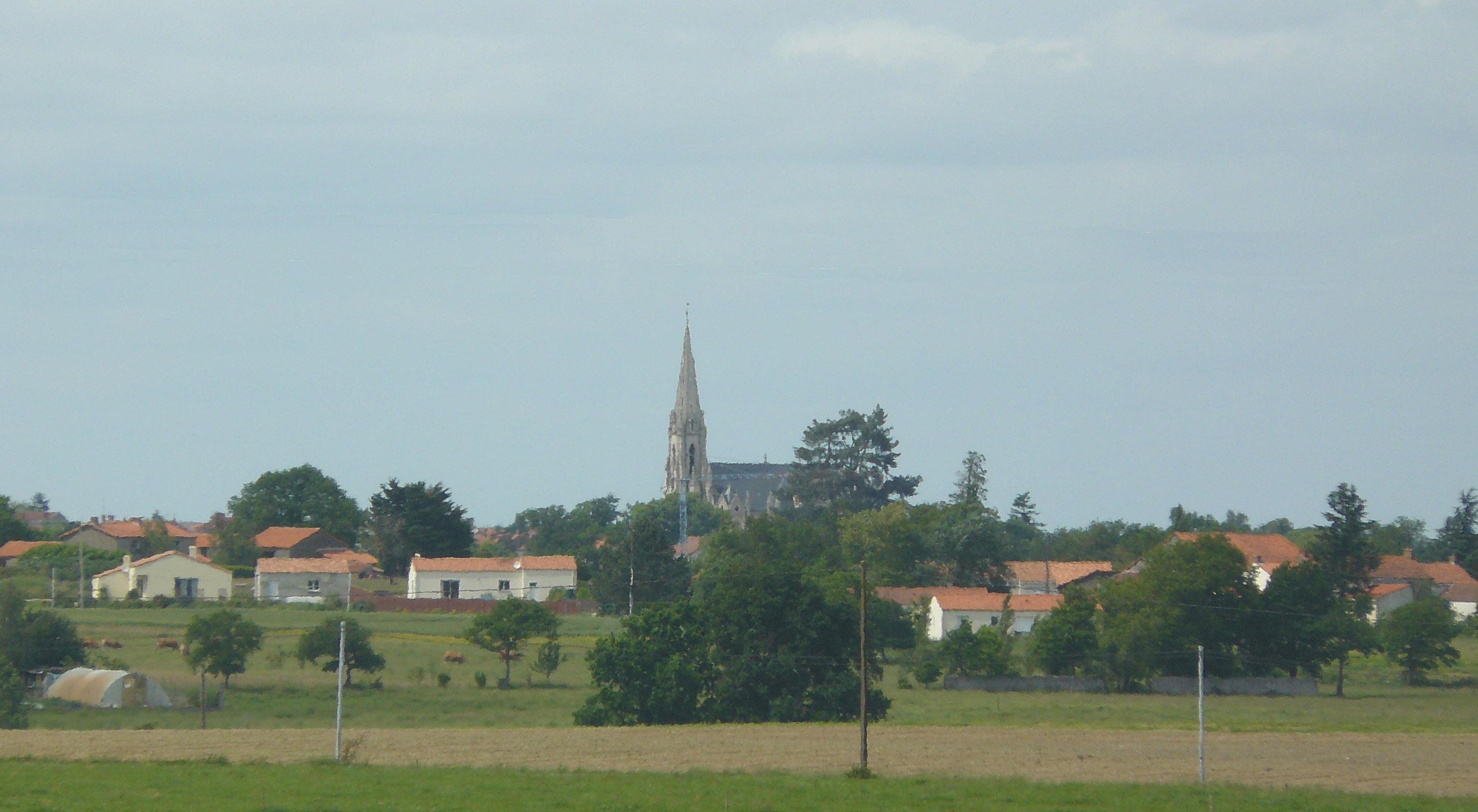 view of countryside and Church of Aigrefeuille-sur-Maine